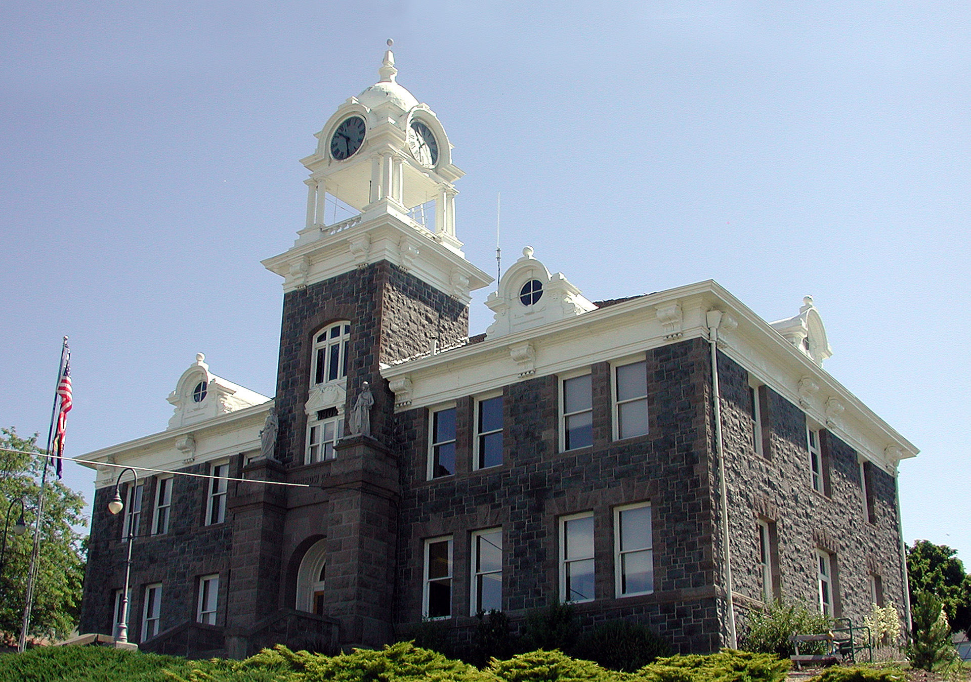 The Morrow County Courthouse in Heppner, Oregon, United States, is listed on the US National Register of Historic Places. Object location45° 21′ 13″ N, 119° 32′ 56″ W